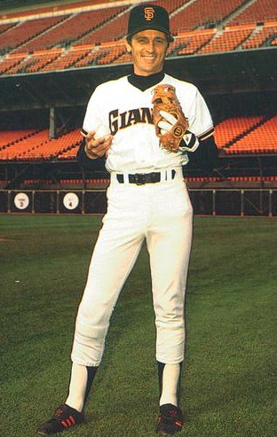 Professional baseball player Duane Kuiper